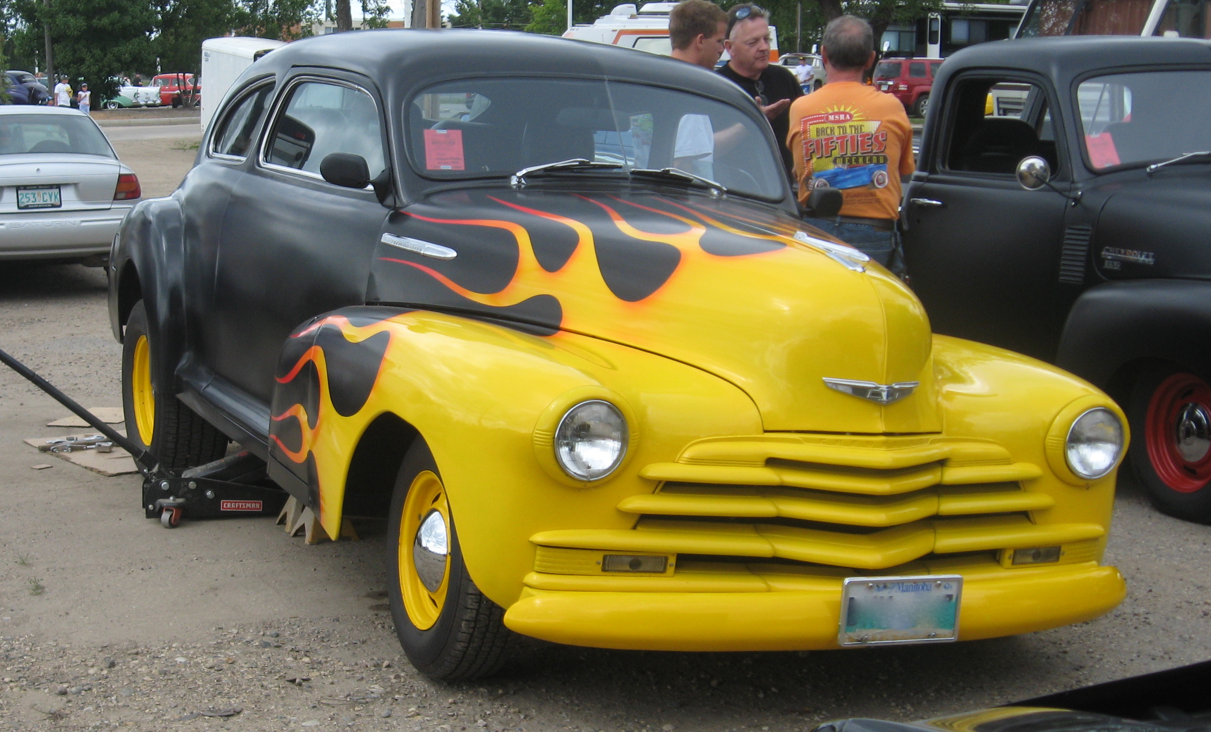 Customized 1941 Chevrolet Master Deluxe Series AG, with classic flame job, shot at local car show/swap meet